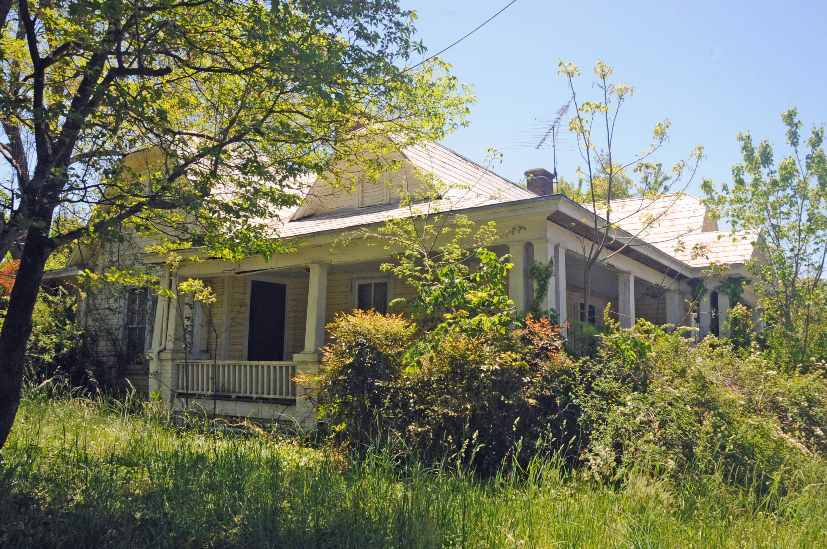 J. F. Scroggs' house; circa 1909, German-sided Queen Anne cottage built for Scroggs who was the Superintendent of Streets for Statesville.